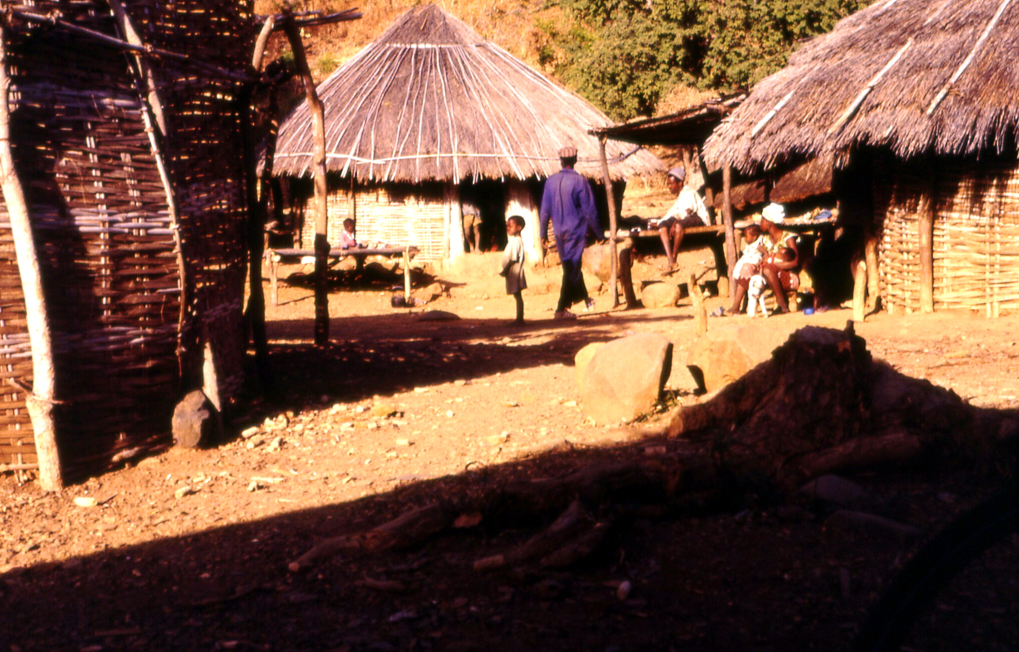 Diallo compound, Ibel, southeast Senegal (West Africa)